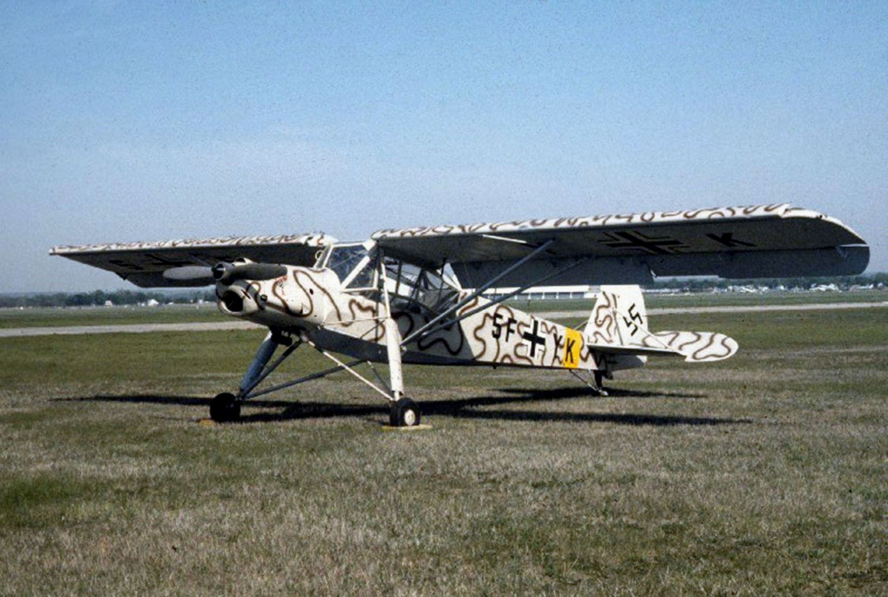 A former German Fieseler Fi 156C-1 Storch liasion plane now in the National Museum of the U.S. Air Force, Ohio (USA). The plane "5F+YK" belonged to the 2.(H)/Auf.Kl.Gr.14, a short-range reconaissance unit in North Africa. The museum's Fi 156 is painted as the Storch used by Field Marshal Erwin Rommel in North Africa. Built in 1940, it was exported to Sweden where it remained until 1948. It was donated to the Museum in 1974.